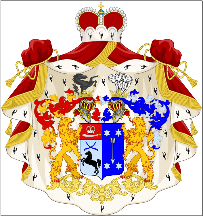 coat of arms of prince Abashidze-Gorlenko